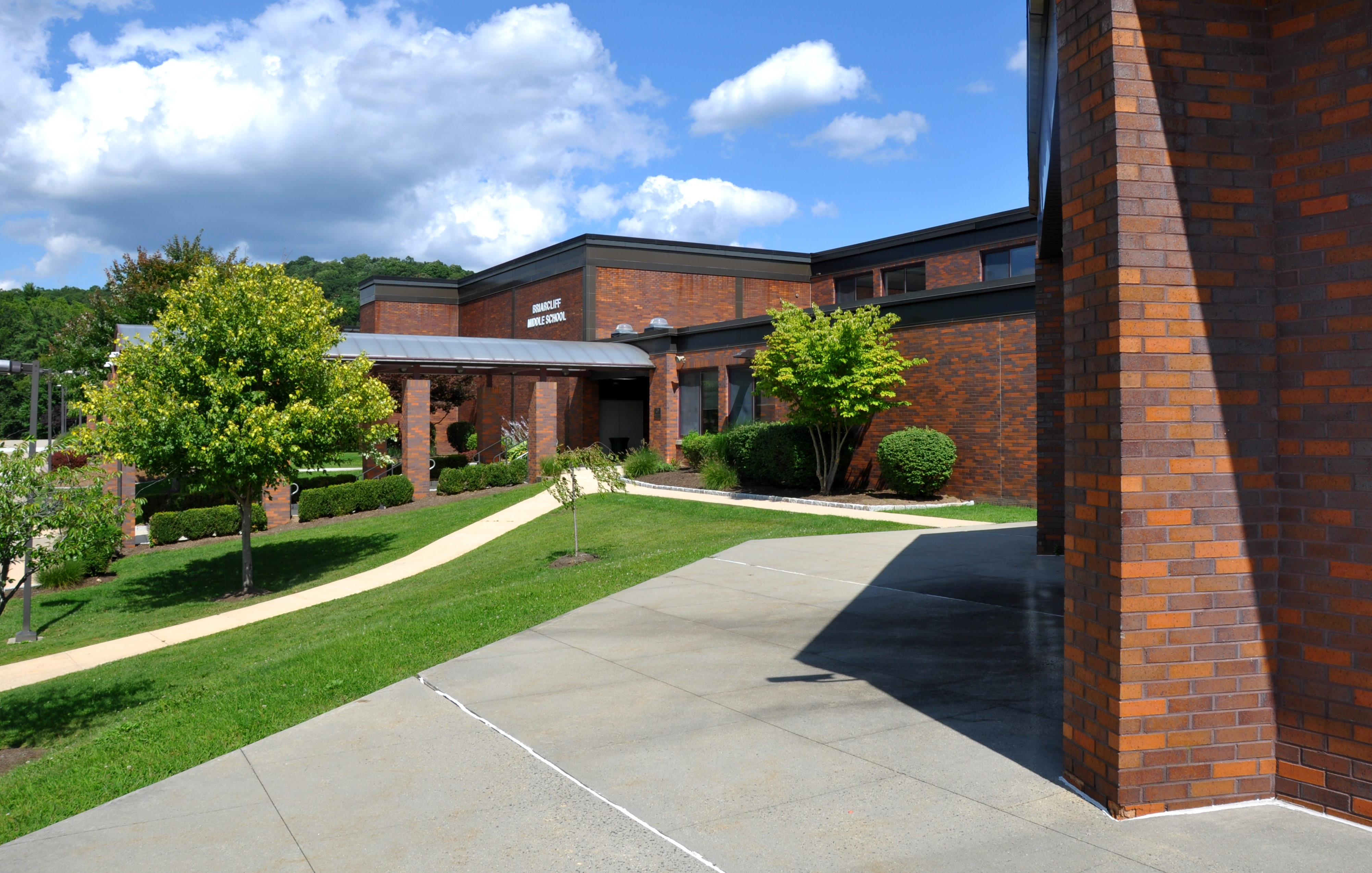 Briarcliff Middle School, taken 2014-08-17 14:42:59.